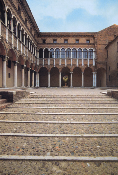 Ferrara, Palazzo Costabili. The courtyard